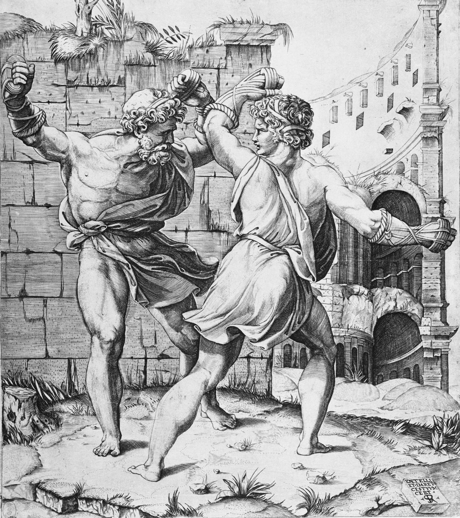 Italy, 1520-1525 Prints; engravings Engraving Mary Stansbury Ruiz Bequest (M.88.91.19) Prints and Drawings